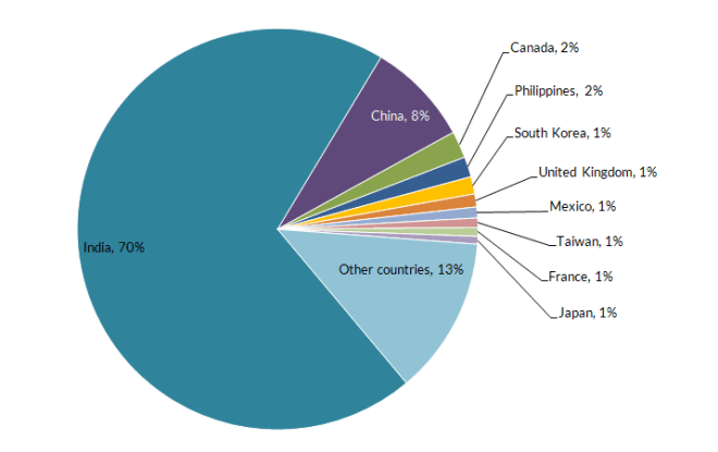 H1B visas by origin